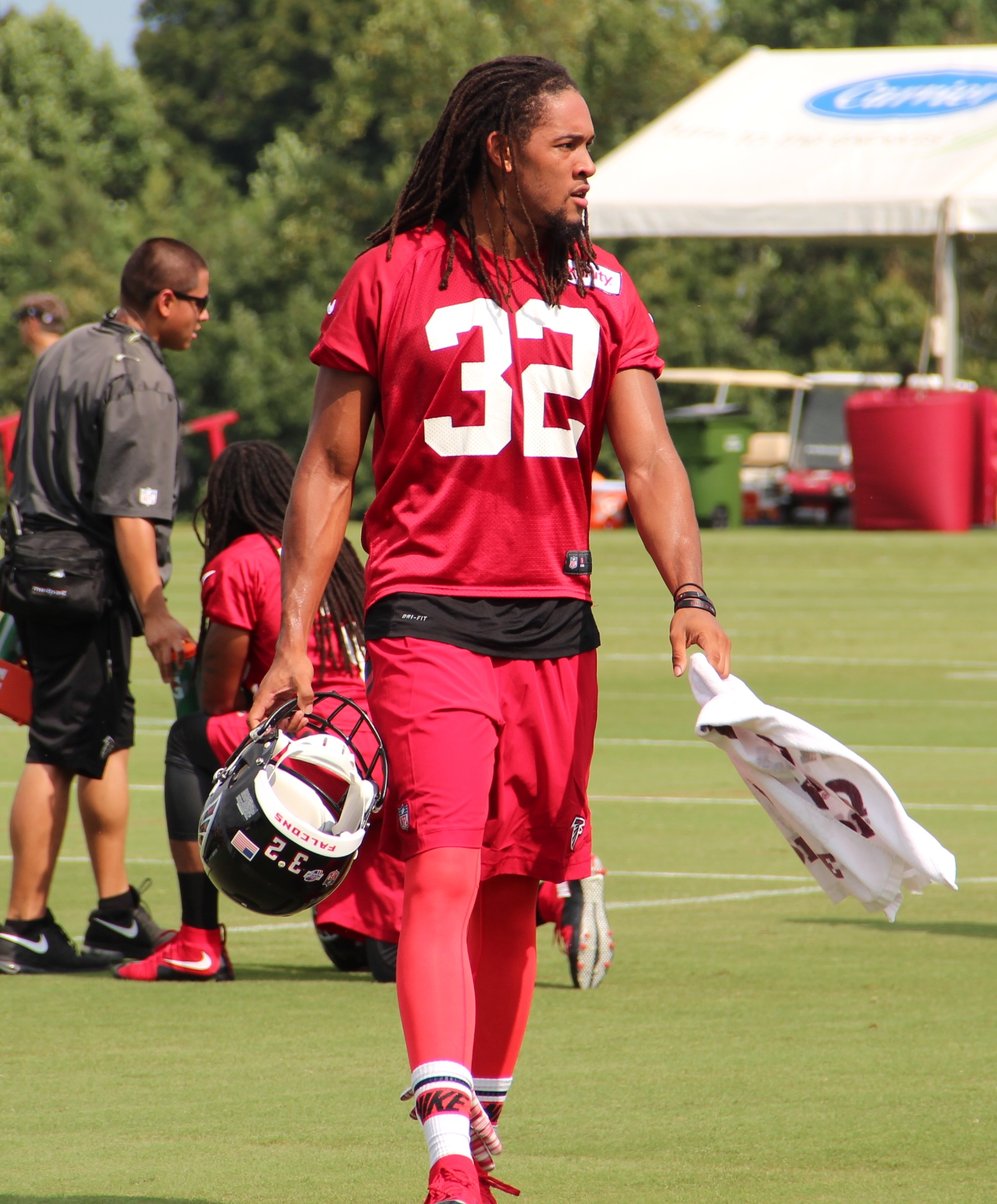 Jalen Collins in 2015